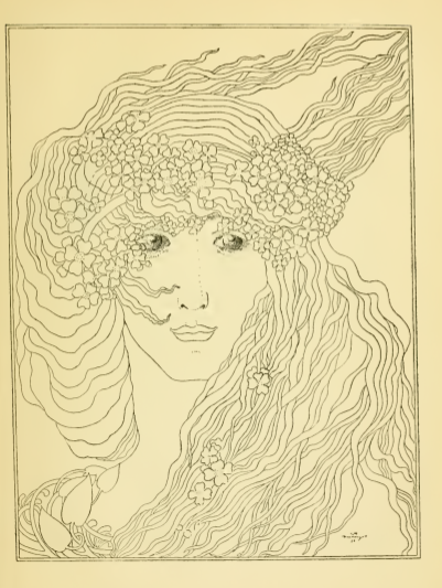 A Woman's Head designed by William Brown MacDougall for The Savoy magazine, issue 6, page 115.